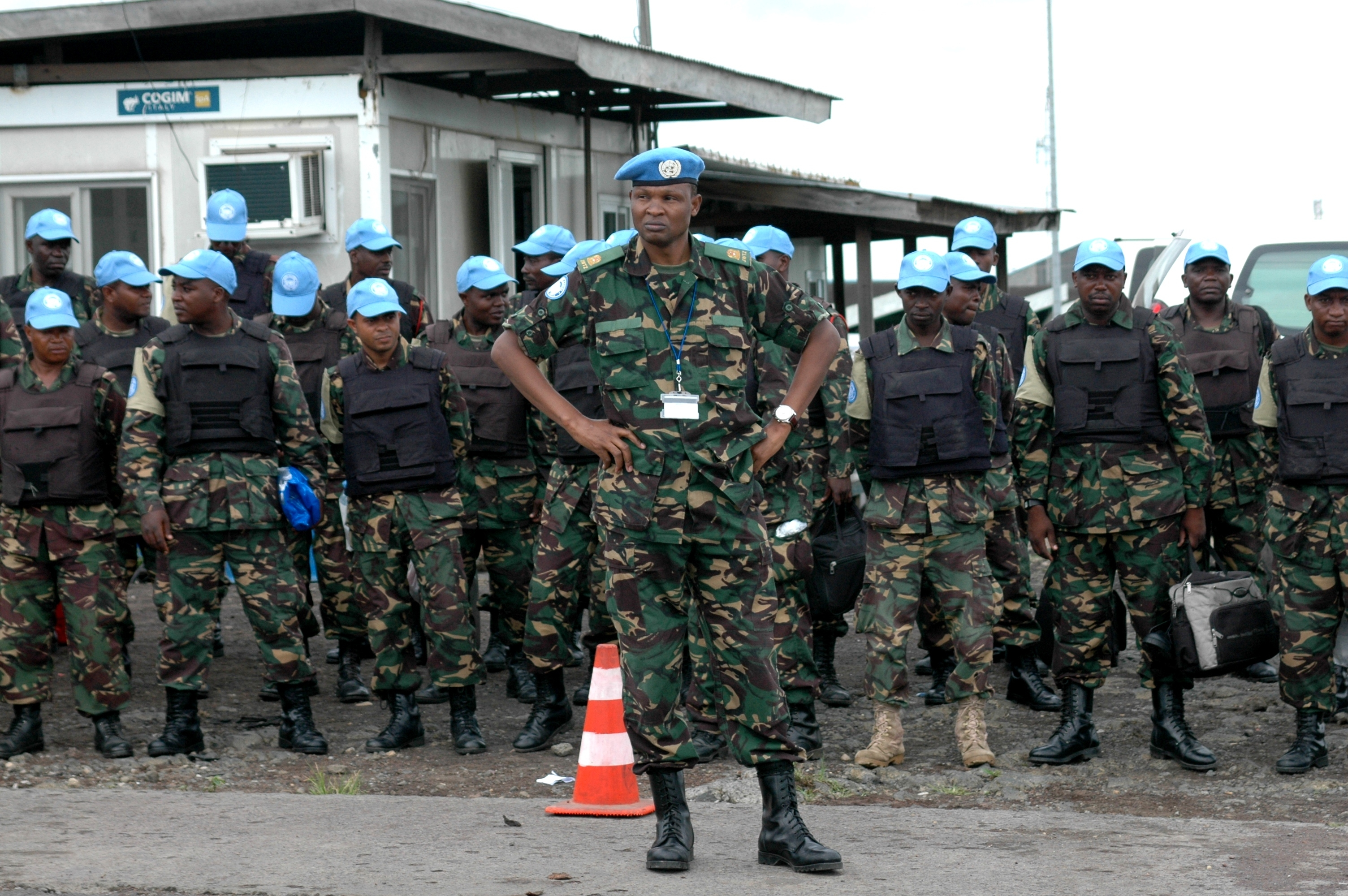 Arrival of Tanzanian troops in Goma, 10 May 2013 (5) Ph. Clara Padovan